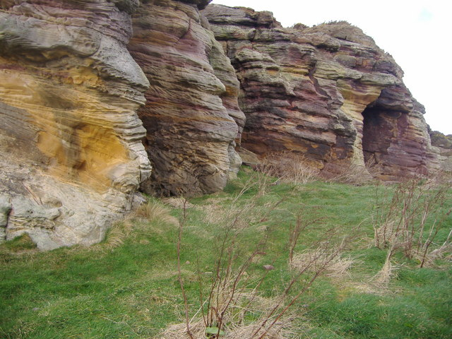 Caiplie Caves Weathered and eroded over the millennia by the action of wind and tide, this chunk of red sandstone now stands isolated. Medieval chronicles associate Caplie with St. Adrian (or St. Ethernan) who was killed on the Isle of May in 875 by Viking raiders. Christian crosses carved into the wall of Chapel Cave give credence to the theory that this was a shrine to the martyred saint.